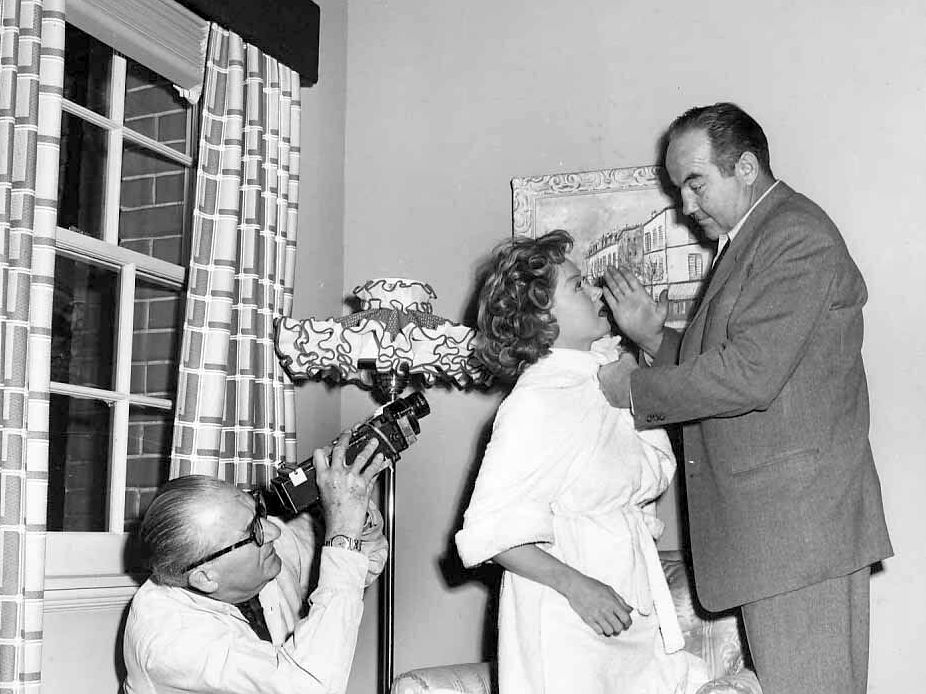 Fritz Lang and Gloria Grahame on the set of Human Desire (1954)